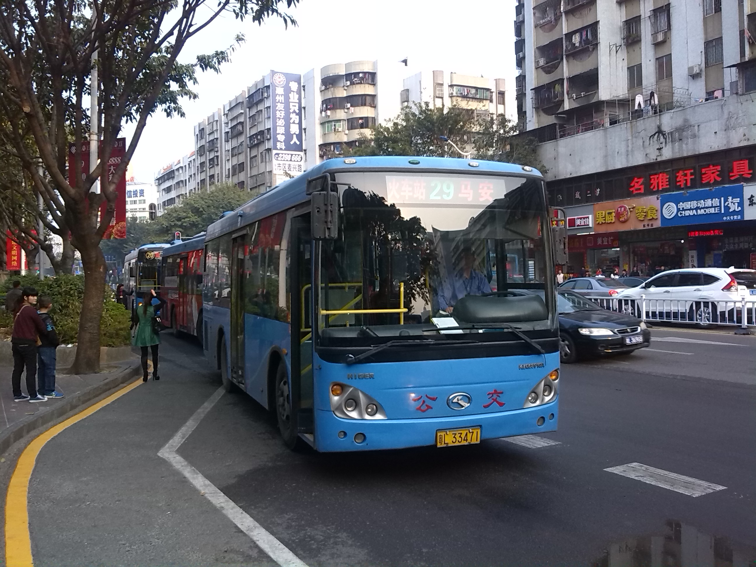 A Higer KLQ6891GA bus which is powered by diesel and enlisting on Huizhou City Bus Corporation Route 29. The plate number of this bus is "粤L•33471" . The photo was taken at the bus stop of Dongping Market. This bus was already written off.